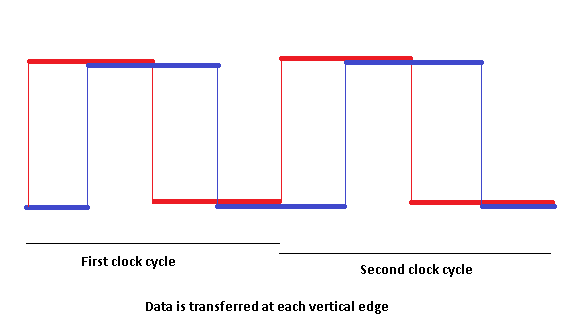 How Quad Pumping Works